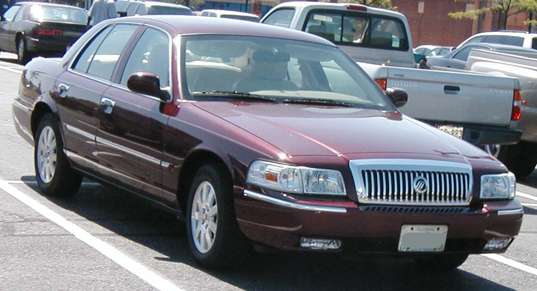 2006 Mercury Grand Marquis photographed in USA.